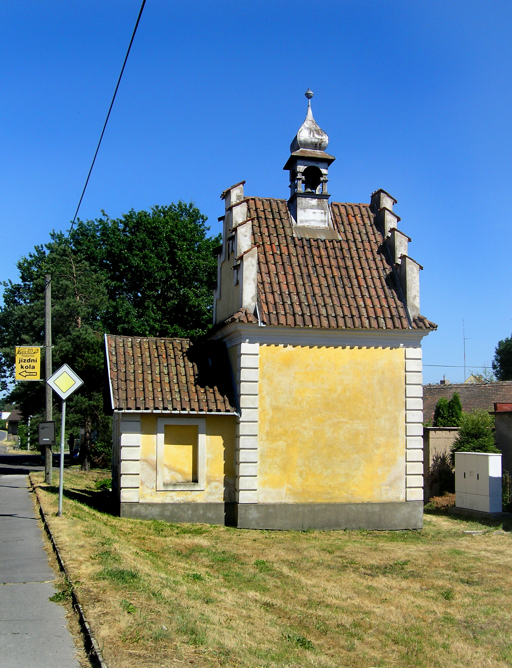 Chapel in Popkovice, part of Pardubice, Czech Republic